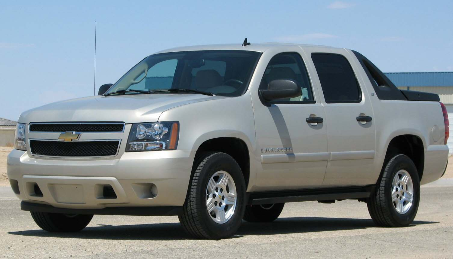 2007 Chevrolet Avalanche photographed in USA.